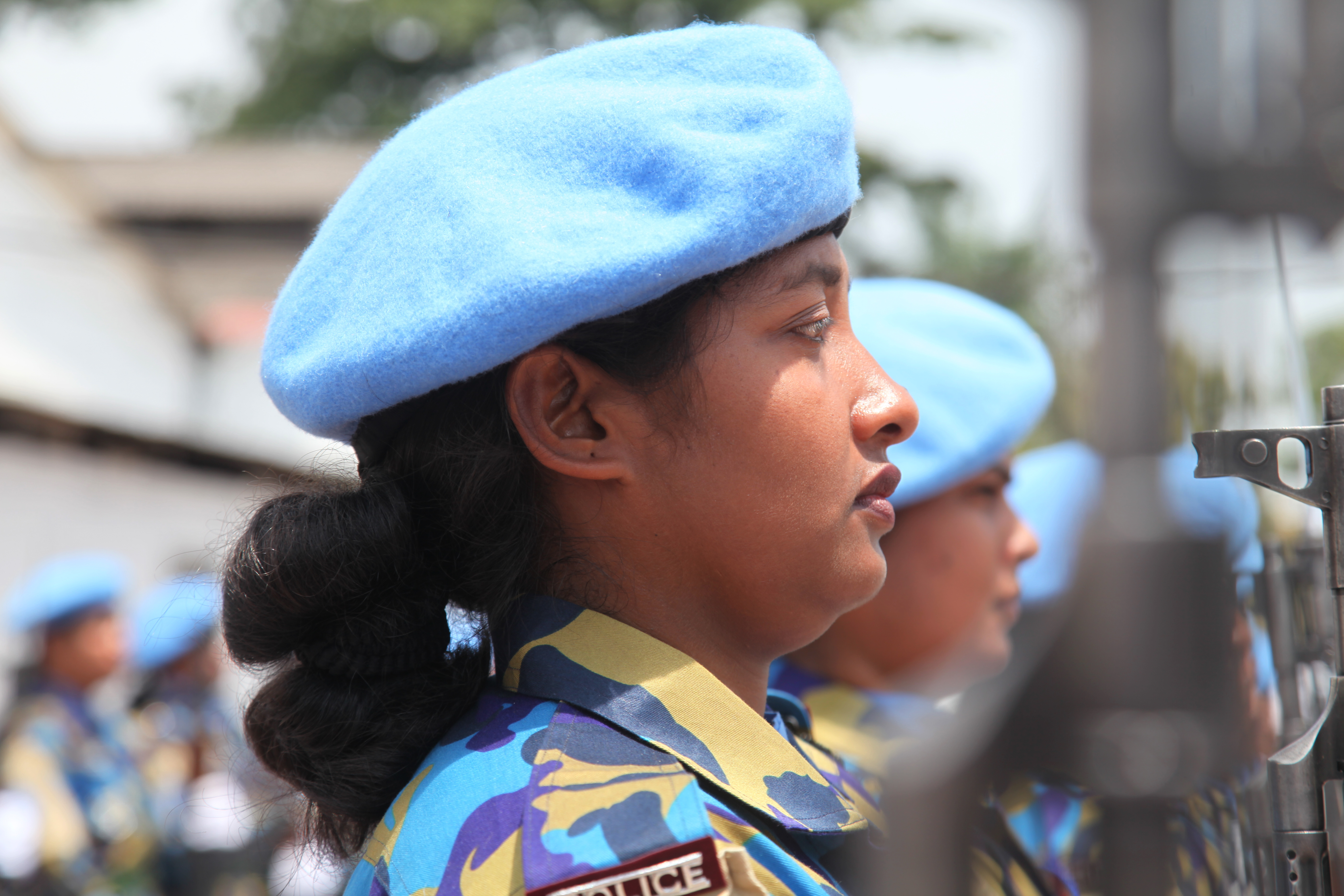 2012-03-09-Kinshasa Ghanbatt Celebration on the International women Day.